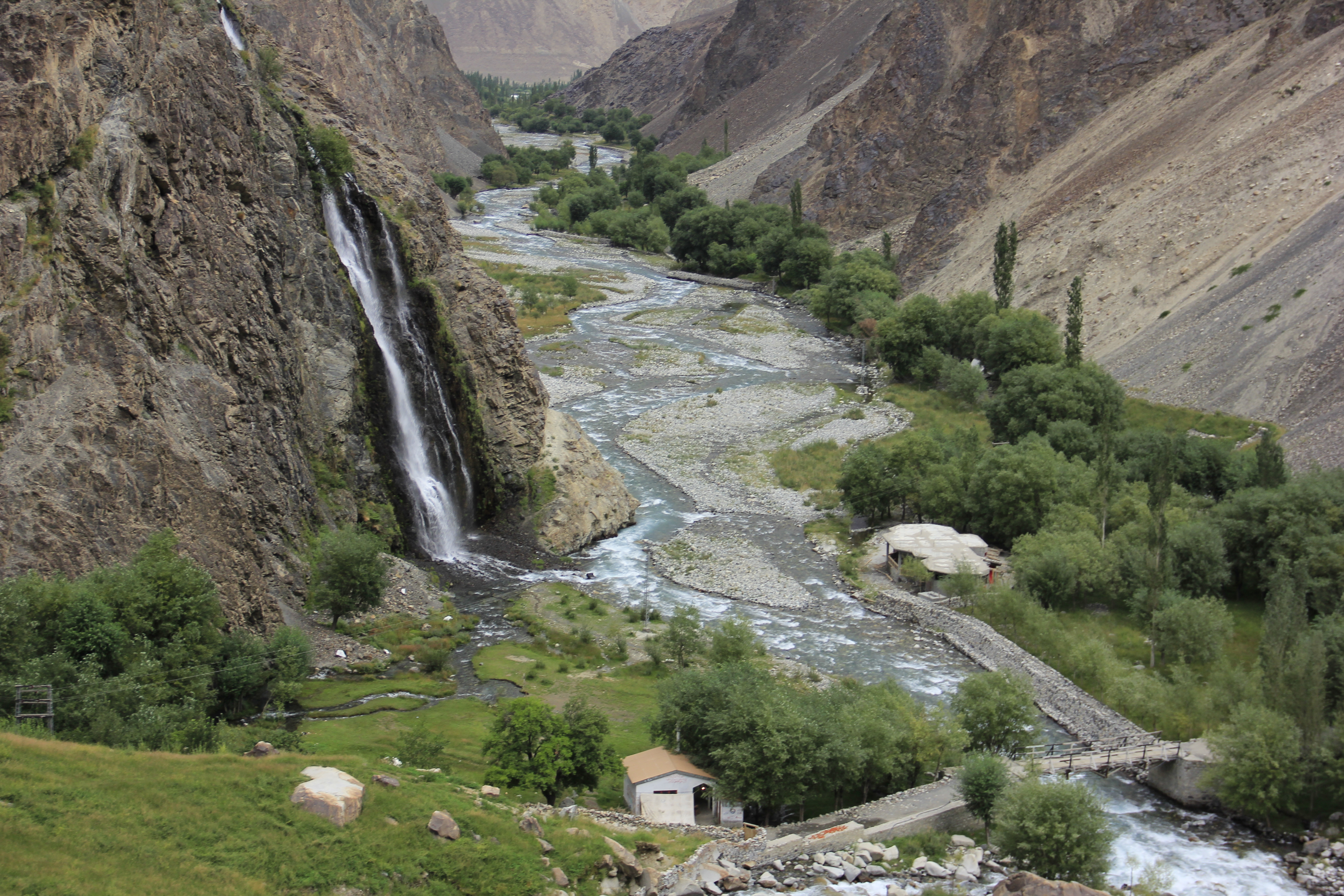 Manthokha waterfalls Located in the village of Manthokha Kharmang in District Skardu, Gilgit-Baltistan, this waterfall is famous for its picturesque and spectacular landscape. This is one of the main meccas of the district Skardu welcoming the native as well as international tourists. The waterfall is in village Manthokha which can be accessed from Skardu city. Heading towards Manthokha Waterfall one has to follow the Kargil-Skardu road from Skardu city. While moving to Manthokha the following villages comes in the way on Kargil-Skardu road: Hussainabad, Thorgo, Parkutta, Ghasing and Manthokha. A stream running downstream falls into the Indus River at Manthokha village. On the east side of this stream is Madhupur, a raod Manthoka-Madhupur road shall lead you to your final destination, Manthokha Waterfall. How to Reached Manthokha WaterFalls Baltistan from Islamabad. By Air. The PIA flight 451 flies to Skardu from Islamabad daily at 10:00 am (usually). It’s a 45 minutes flight, which is well worth the price you pay. During the flight, if you are sitting on the right side, you will see some of the most beautiful mountain ranges from Nanga Parbat, Raka Poshi and also a distant view of the K2, the queen of all mountains.Skardu City is 10 miles from Skardu Airport and when you reached Skardu Bazar you will see Direction to Manthokha. By Road. Manthokha Waterfalls can be reached via Skardu by bus from Islamabad. The drive takes you all the way over the KKH (Karakoram Highway). Since the KKH is still under construction and the Skardu road still has to be repaired, the road can take up to 24 hours by public transport (cost approx. 2500 Rupees). Manthokha Valley is 60km from city of skardu. is located near the confluence of Indus rivers, and is watered by the stream flowing down the Manthokha Nala. Although Manthokha is the base camp for the routes to Sub Division Kharmang.